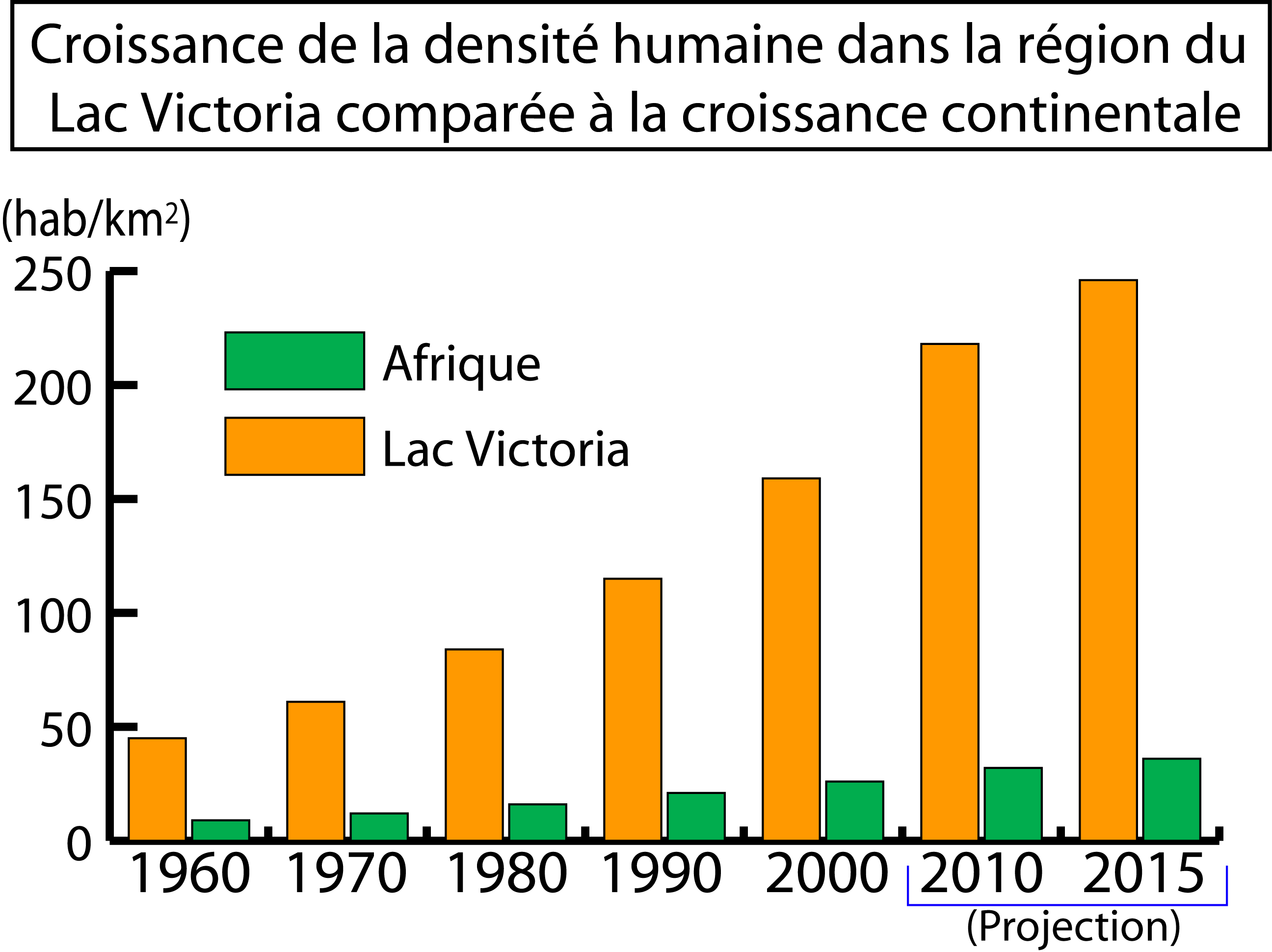 graph of the Human density in lake Victoria area